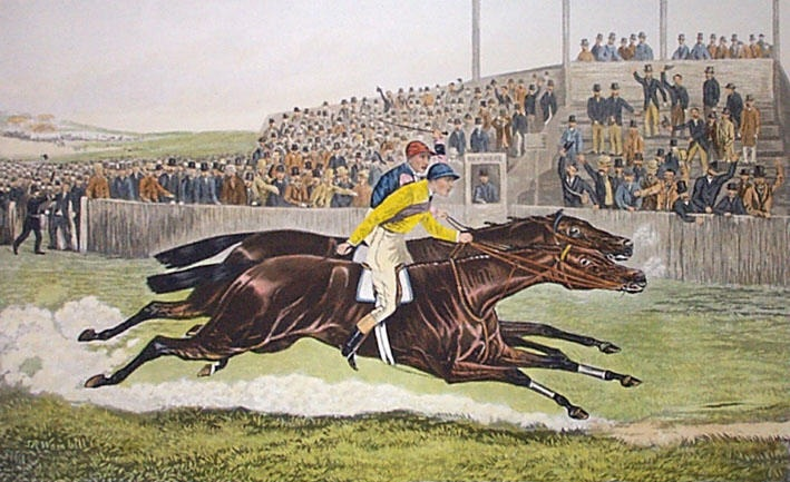 Finish of the 1885 Epsom Derby. Melton beats Paradox. Etching by C R Stock. Painting by Sydney Wombill.